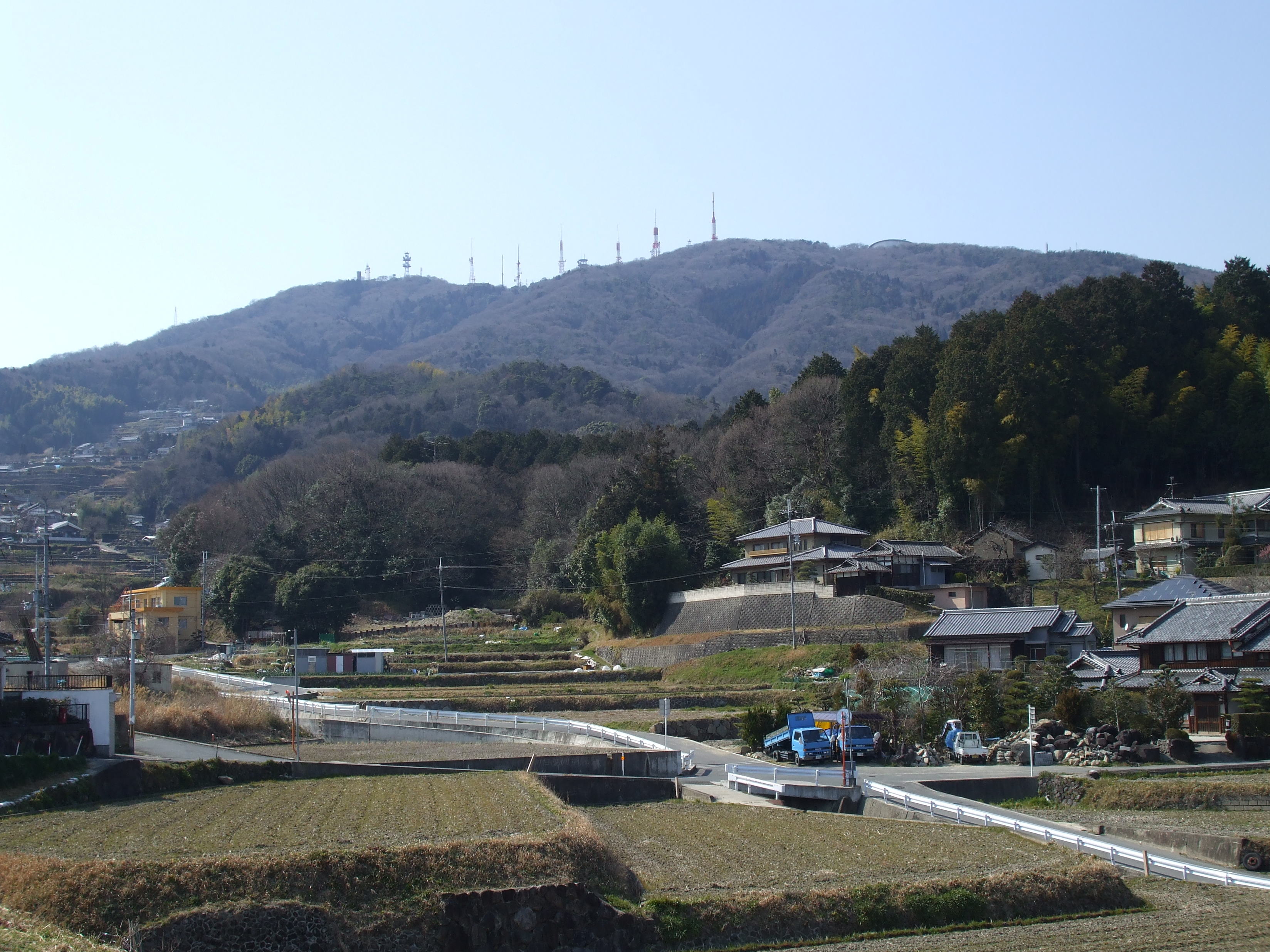 A photo of Mount Ikoma from Ikoma city.